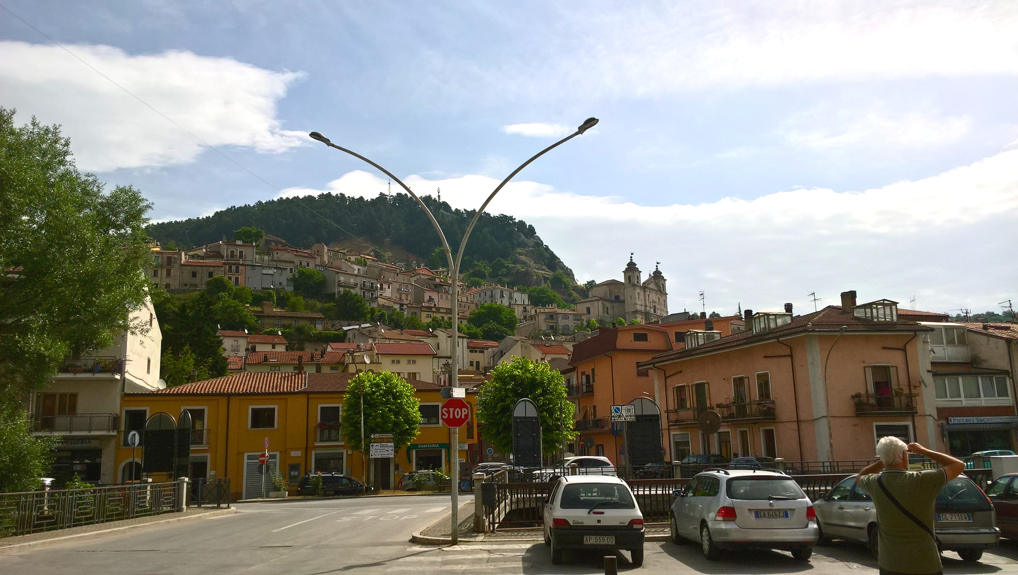 Castel di Sangro; in the background the Basilica Santa Maria Assunta